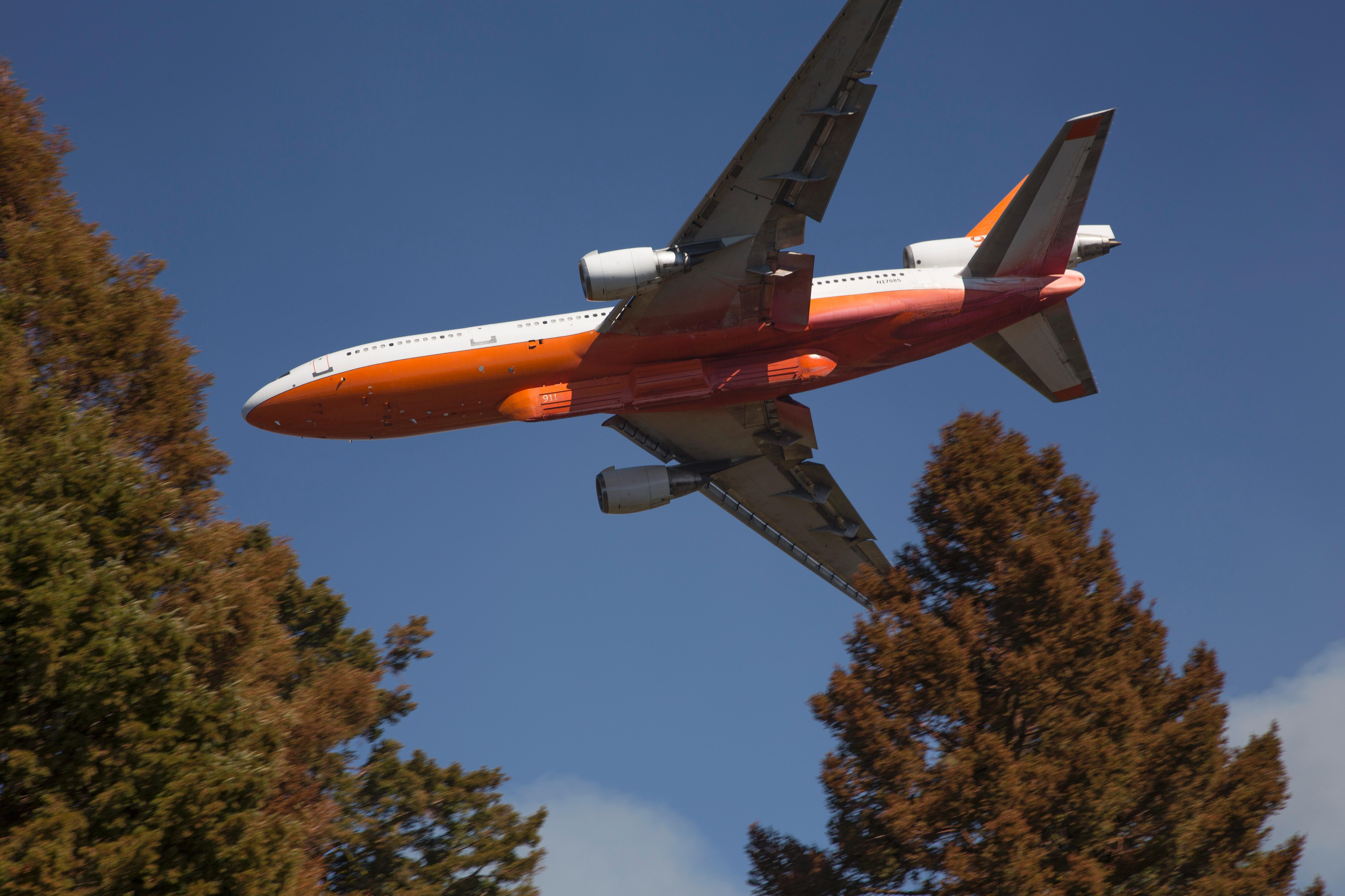 Aircraft prepares to drop fire retardant on Pioneer Fire. The Pioneer Fire located in the Boise National Forest near Idaho City, ID began on Jul. 18, 2016 and the cause is under investigation. The Pioneer Fire has consumed 96,469 acres. U.S. Forest Service photo.